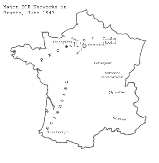 Map showing major SOE networks in France, June 1943